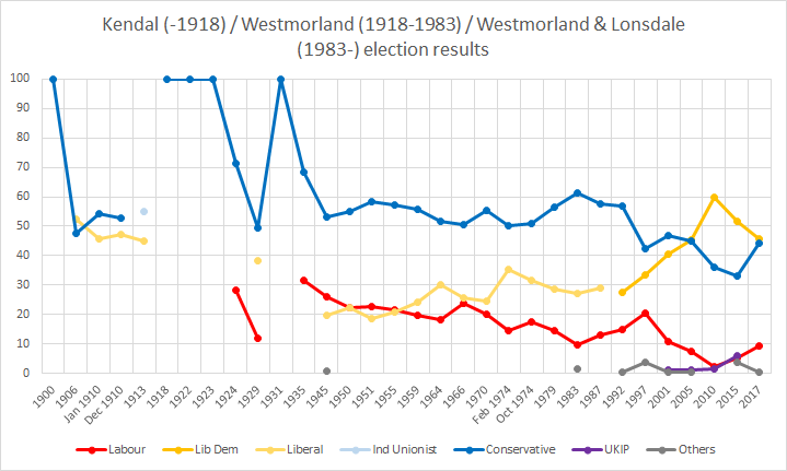 Westmorland election results